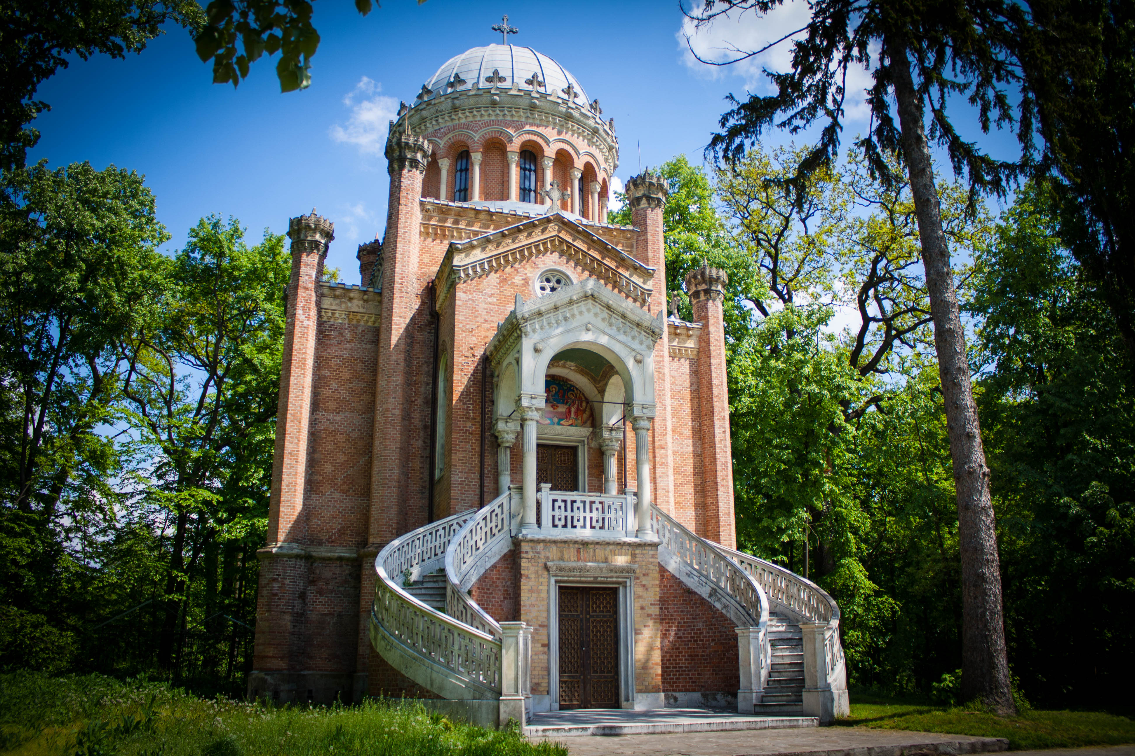 Holy Trinity chapel of Știrbei Palace, BufteaRomână: Capela Sfanta Treime a Palatului Știrbei 02